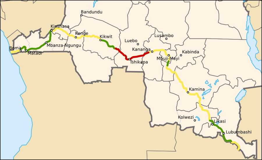 Route nationale 1, Congo-Kinshasa Status of the road Green - usable Yellow - poor usability Red - unusable